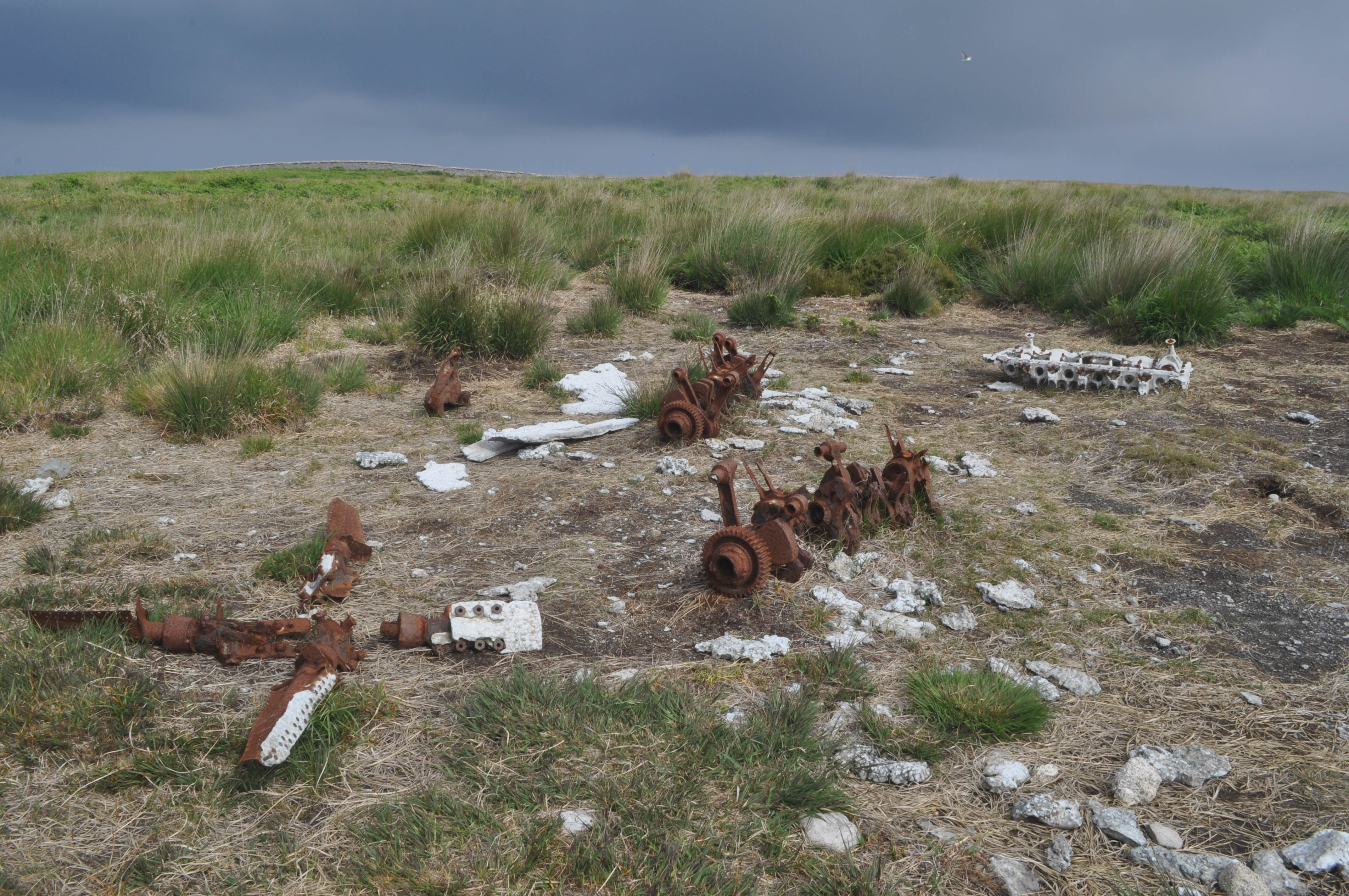 During World War II two German Heinkel's crashed on the island in 1941 and 1942. This is the remains of one of them